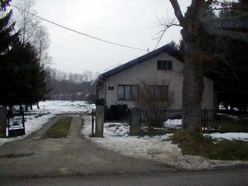 Banovo - Elementary School